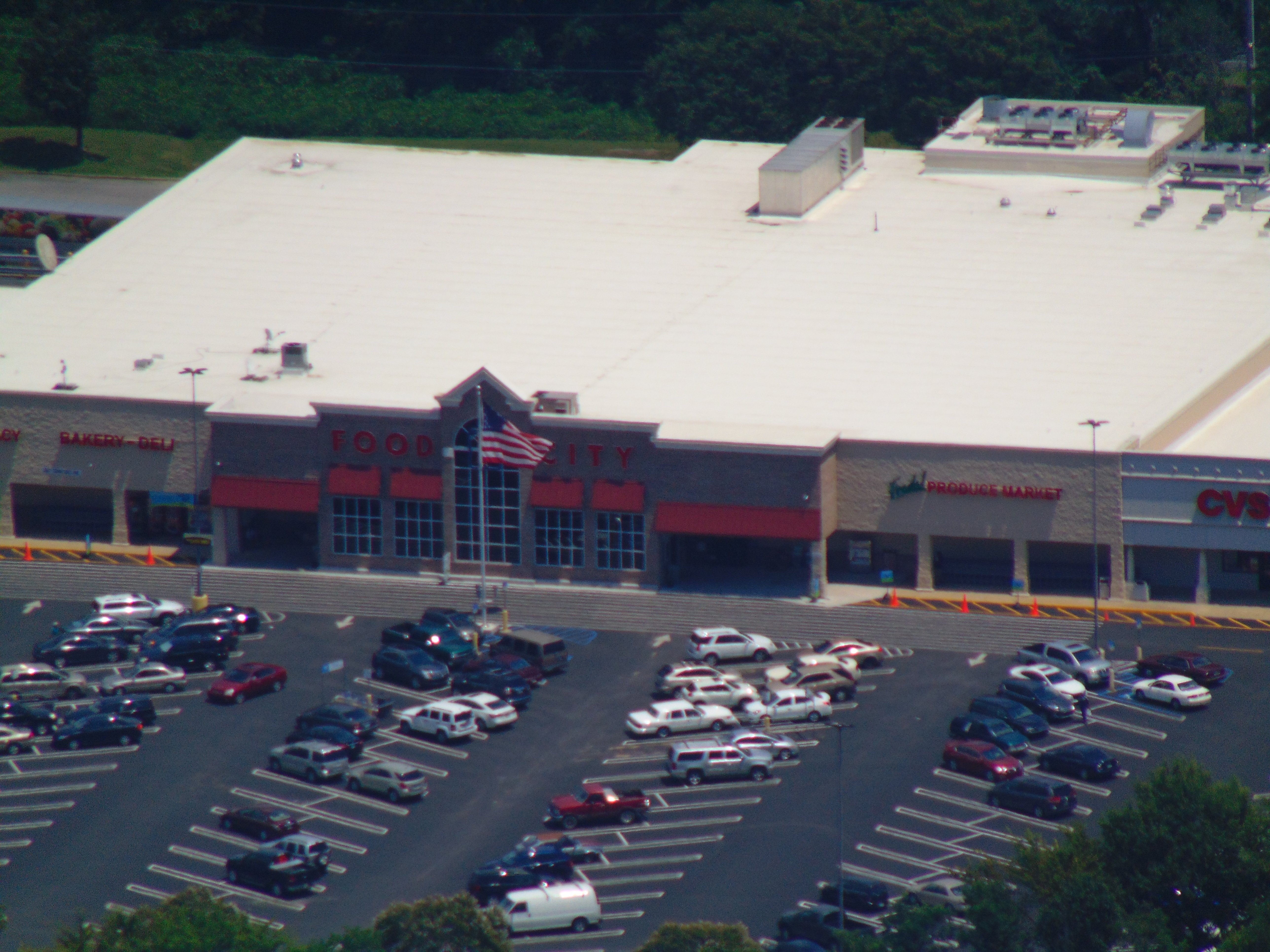 This is the food city located in Chattanooga, Tennessee. CVS is at the side of the photo. (Nabbed from my flickr